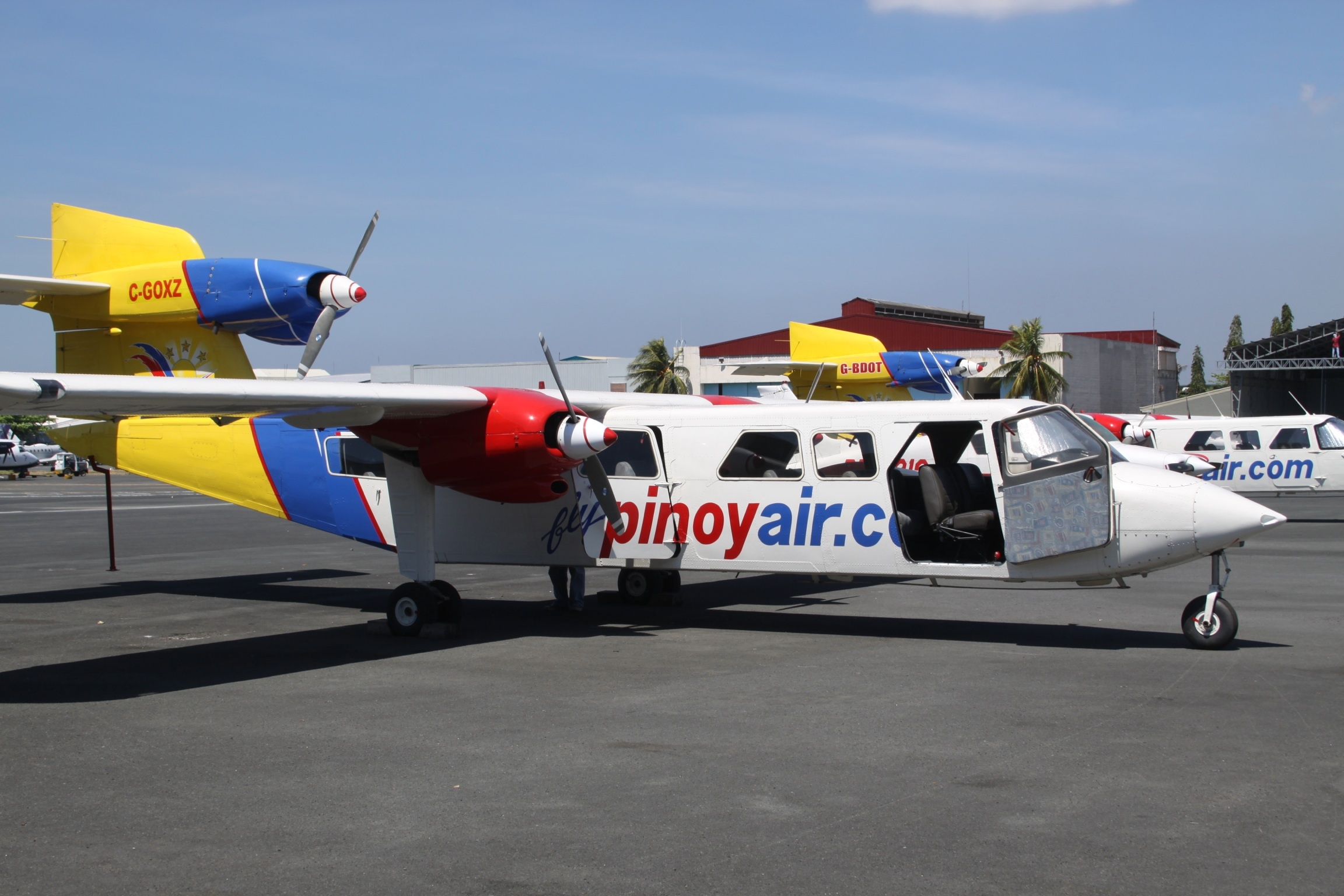 At Manila Ninoy Aquino International